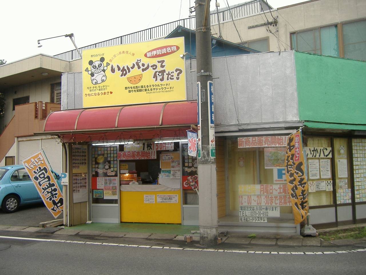 Heisei Food System Shin-isesaki branch (Gunma, Japan)